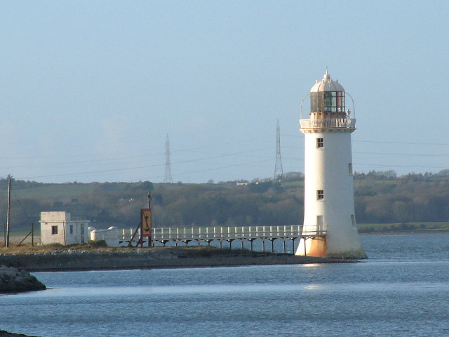 Tarbert Lighthouse. Tarbert Lighthouse, Shannon Estuary operated by The Commissioners of Irish Lights.